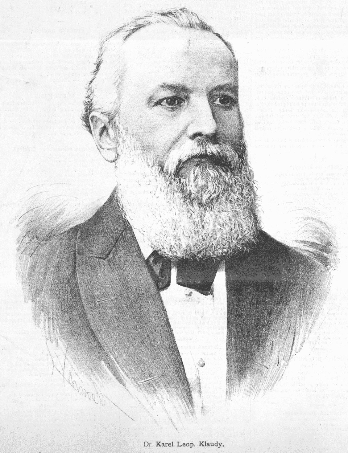 Portrait of Karel Leopold Klaudy (1822–1894), Czech lawyer and politician, portreeve (mayor) of Prague 1868–1869.